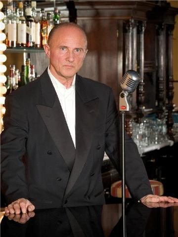 Alfred Zellinger